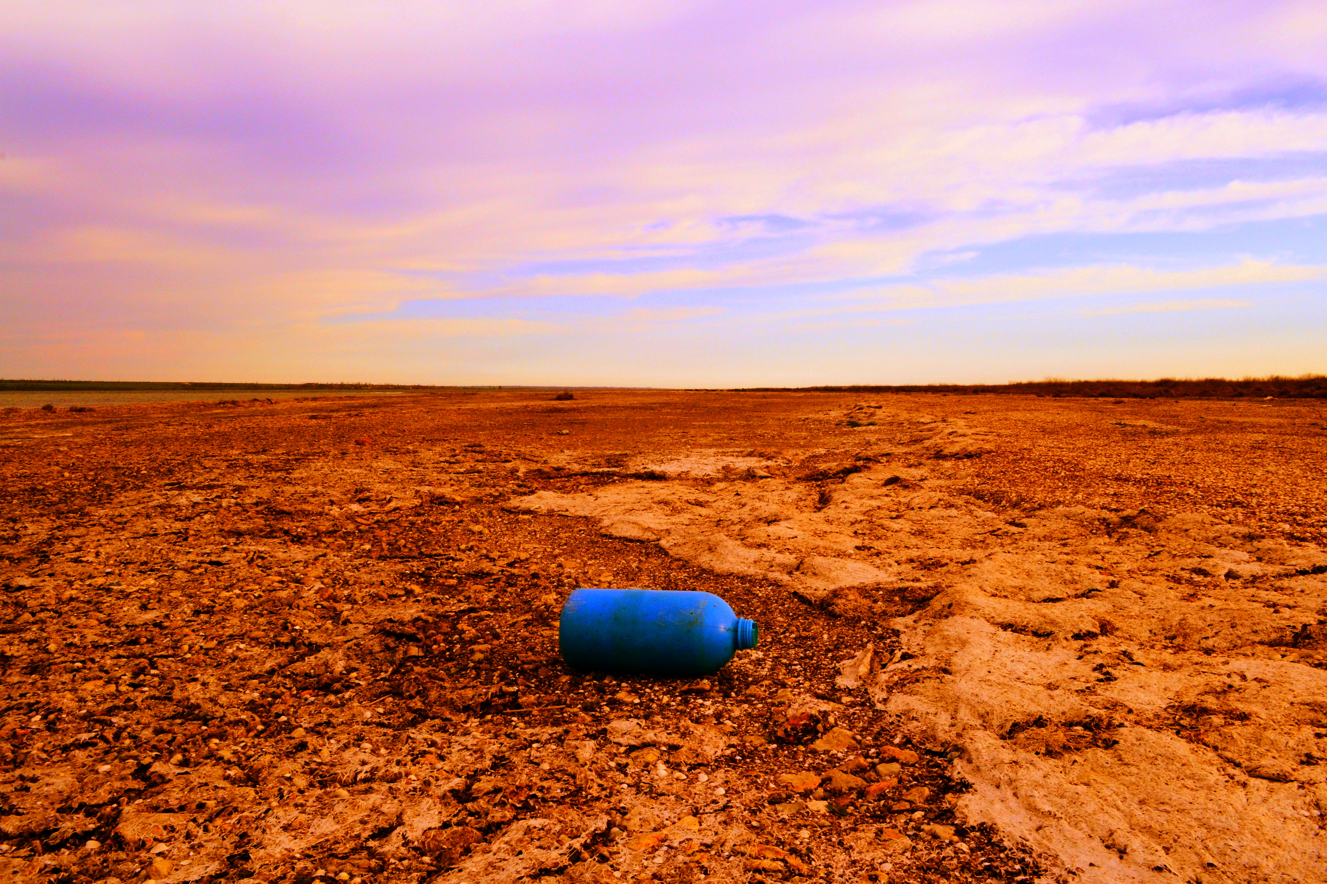 Drying Tiligul estuary